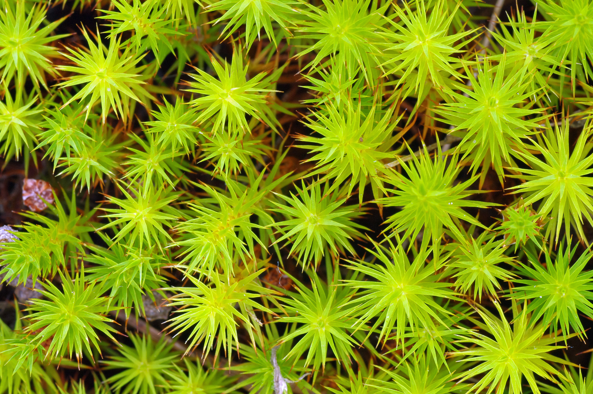 Close-up (view from above) of a moss, probably Polytrichum commune (Common haircap moss).